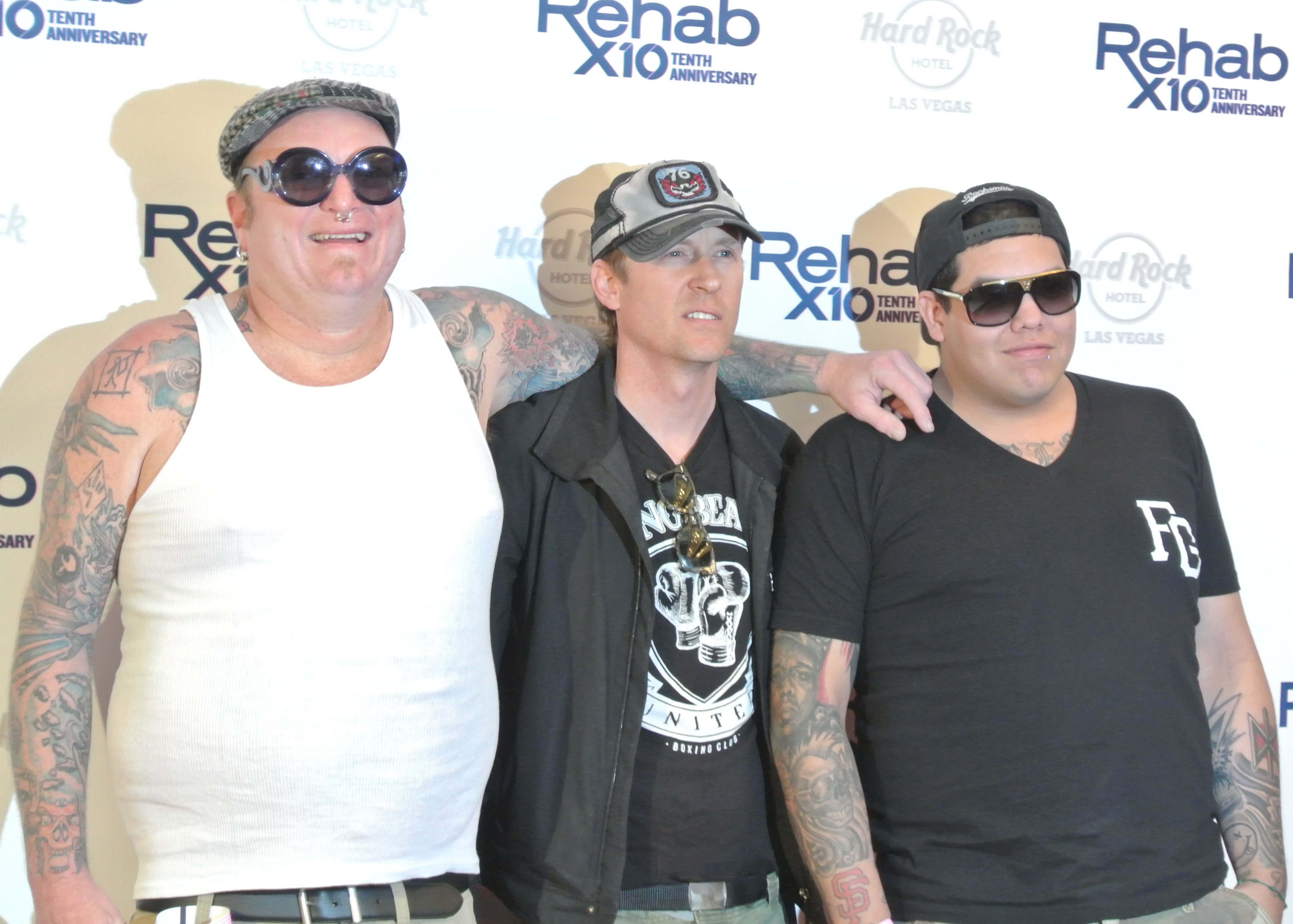 Eric Wilson (L-bass O.G Sublime member), Josh Freese (C-drums since '12), Rome Rameriz (R-vocals and guitar since '09).